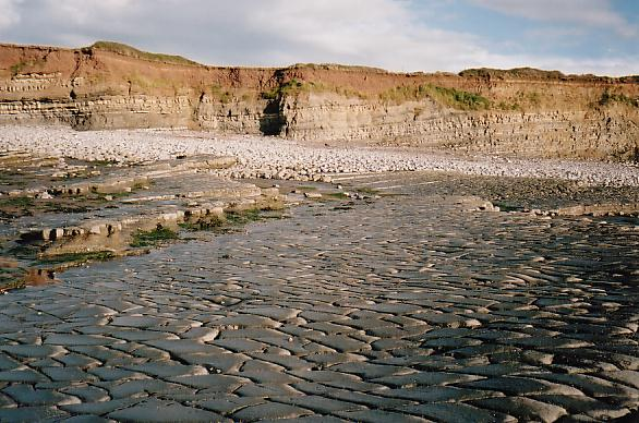 Beach at Quantock's Head, Somerset. The wave cut platform at low tide. The short 'cliff' shows the rock strata clearly.